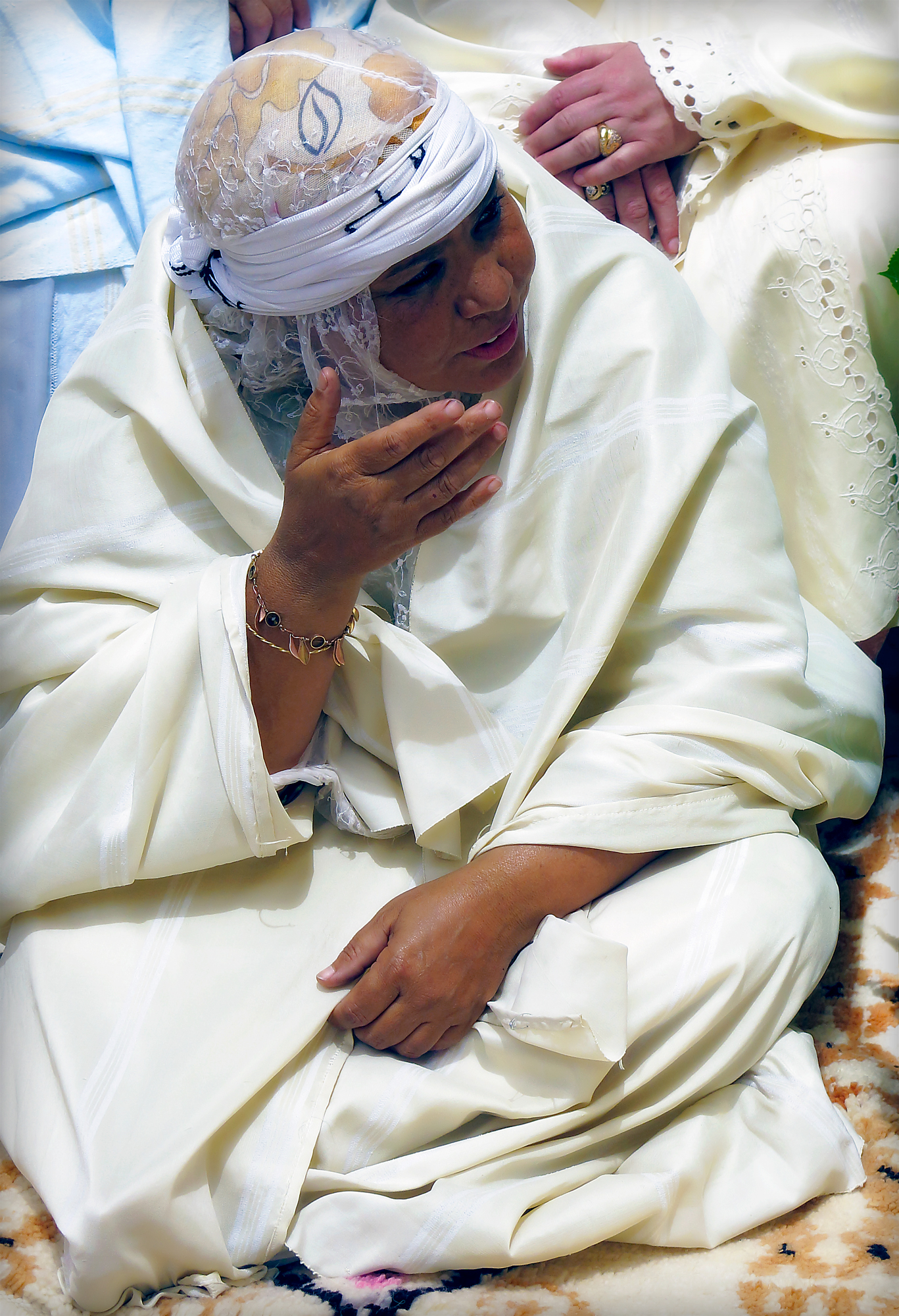 Traditional women dress of the interior side of Algeria This is an image of Cultural Fashion or Adornment from Algeria